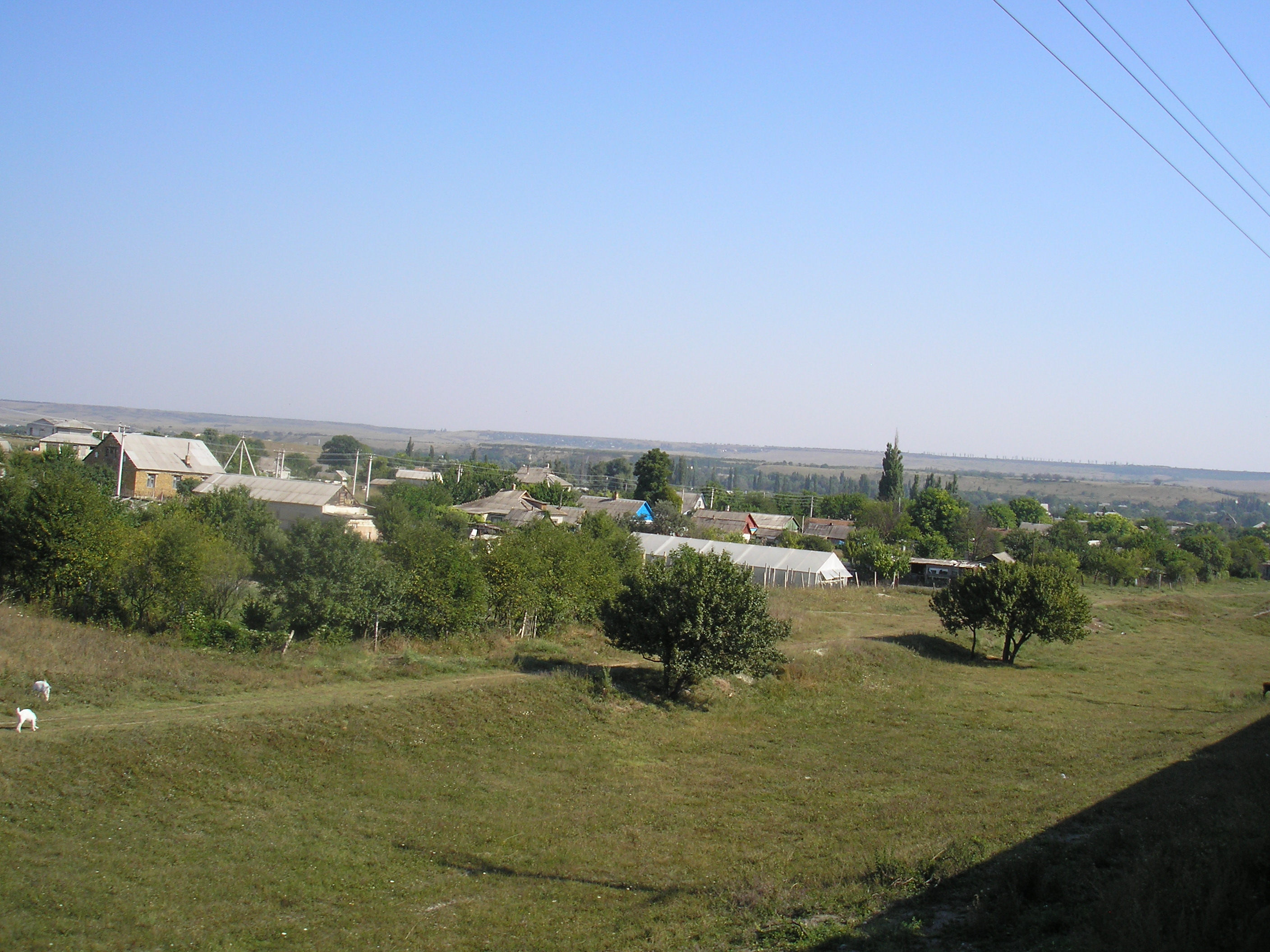 Village Samokhvalova, Bakhchisarai district, Crimea. North view